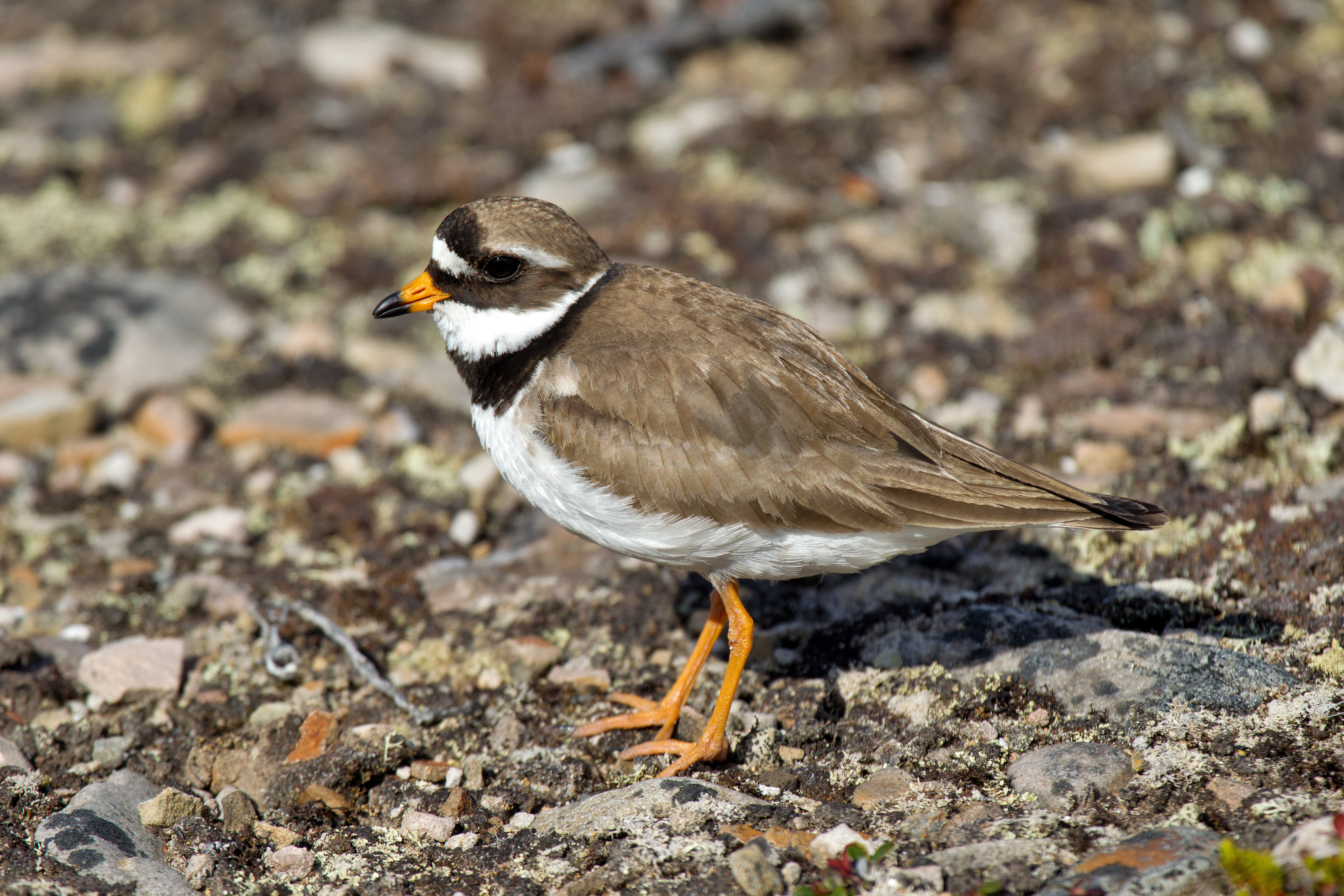 Ringed Plover